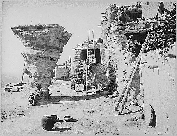 Dancers' Rock — at the Hopi pueblo of Walpi, northeast Arizona (1879). Picturing three Hopi people, ladders, and utensils, 1879